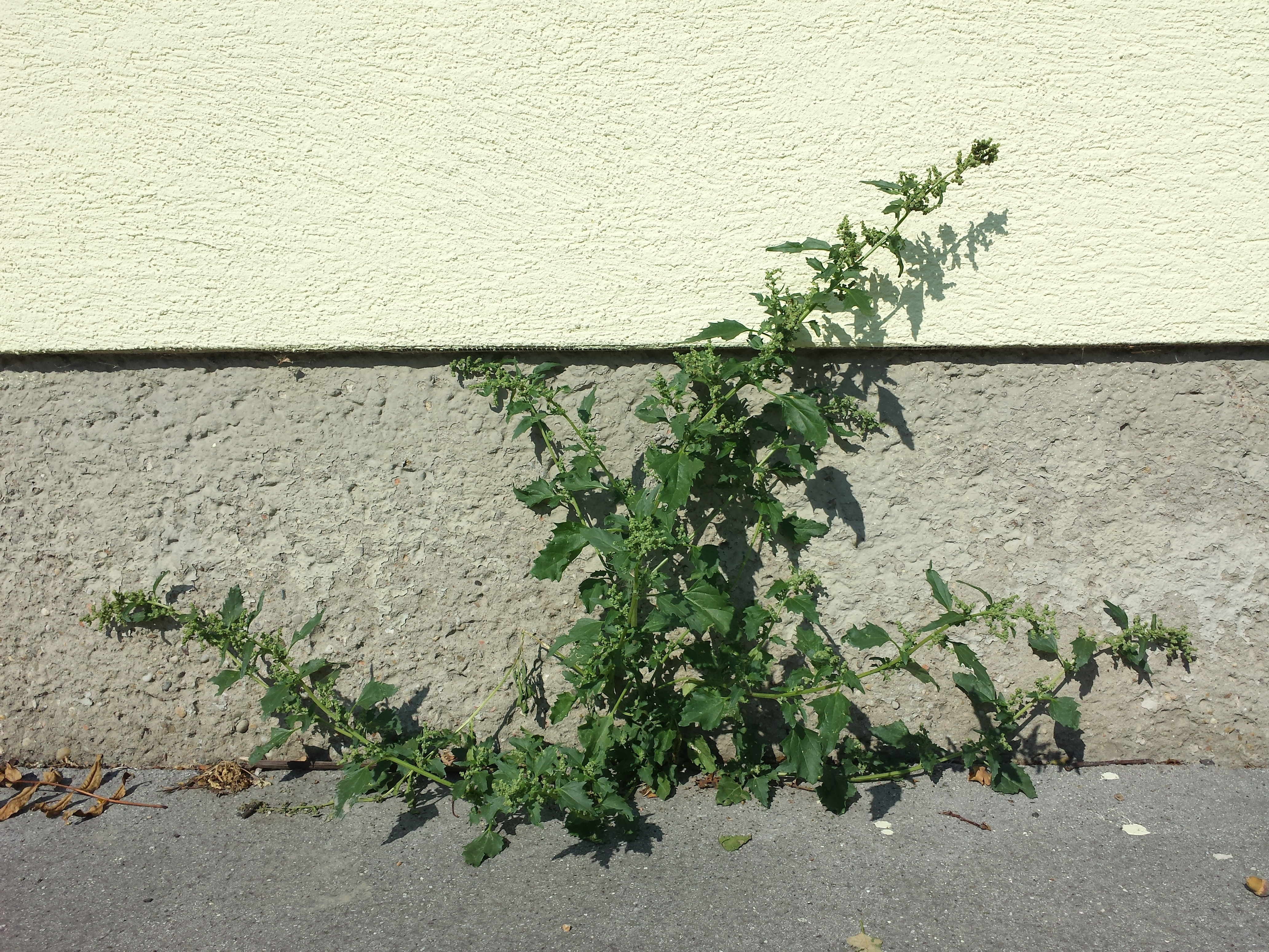 Habitus Taxonym: Chenopodium murale ss Fischer et al. EfÖLS 2008 ISBN 978-3-85474-187-9 Location: Baumergasse/Funkgasse in Groß-Jedlersdorf, Vienna-Floridsdorf - ca. 160 m a.s.l. Habitat: wall base